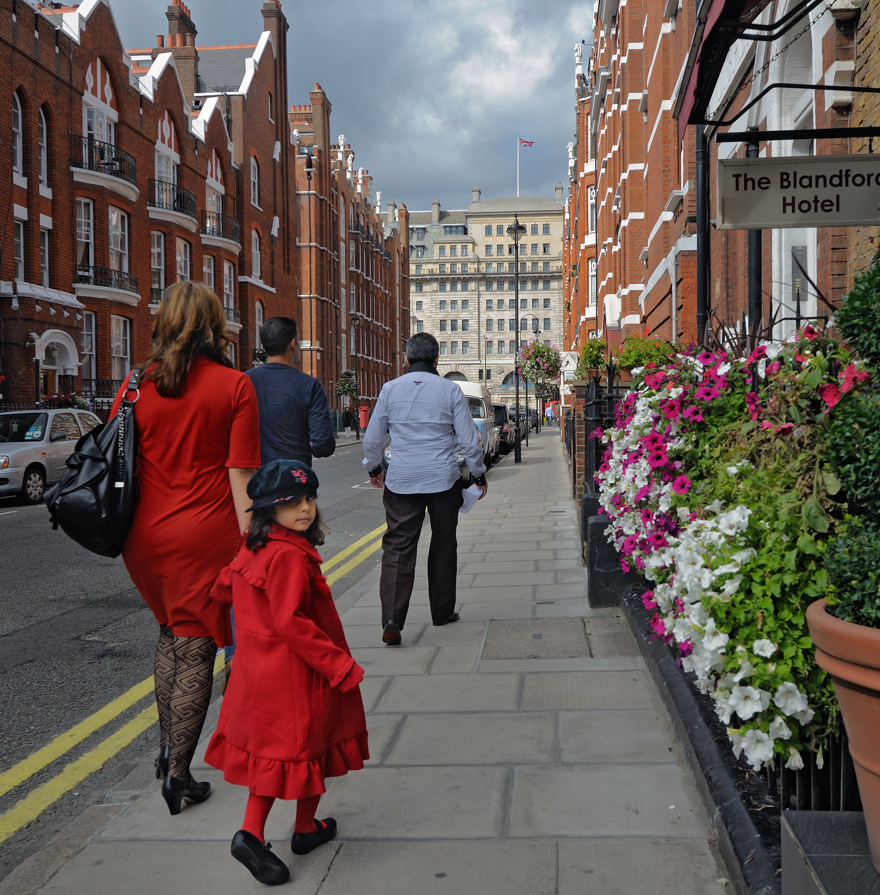 They rush to Madame Tussauds by the Chiltern st. London, GB